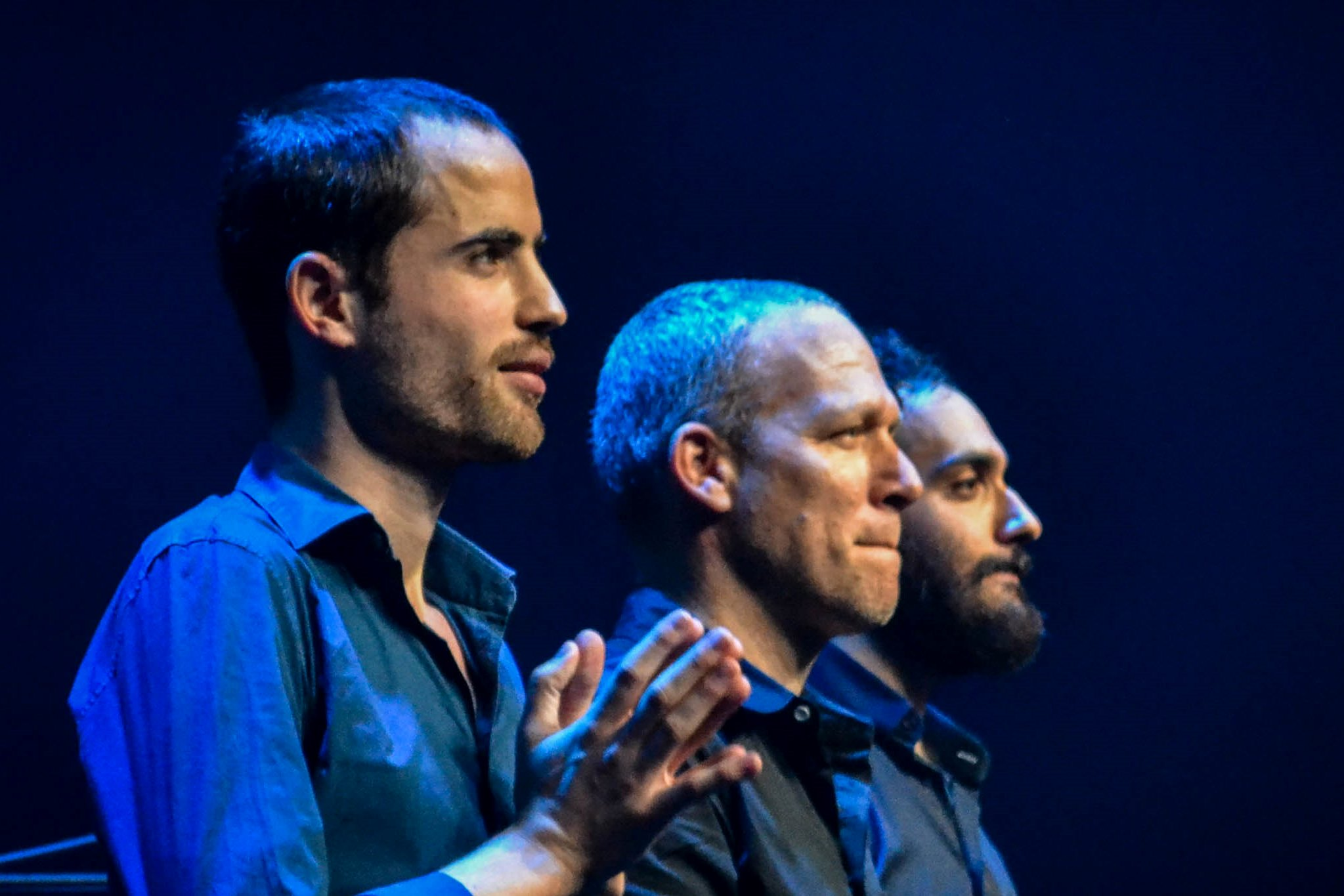 Nitai Hershkovitz, Avishai Cohen and Daniel Dor